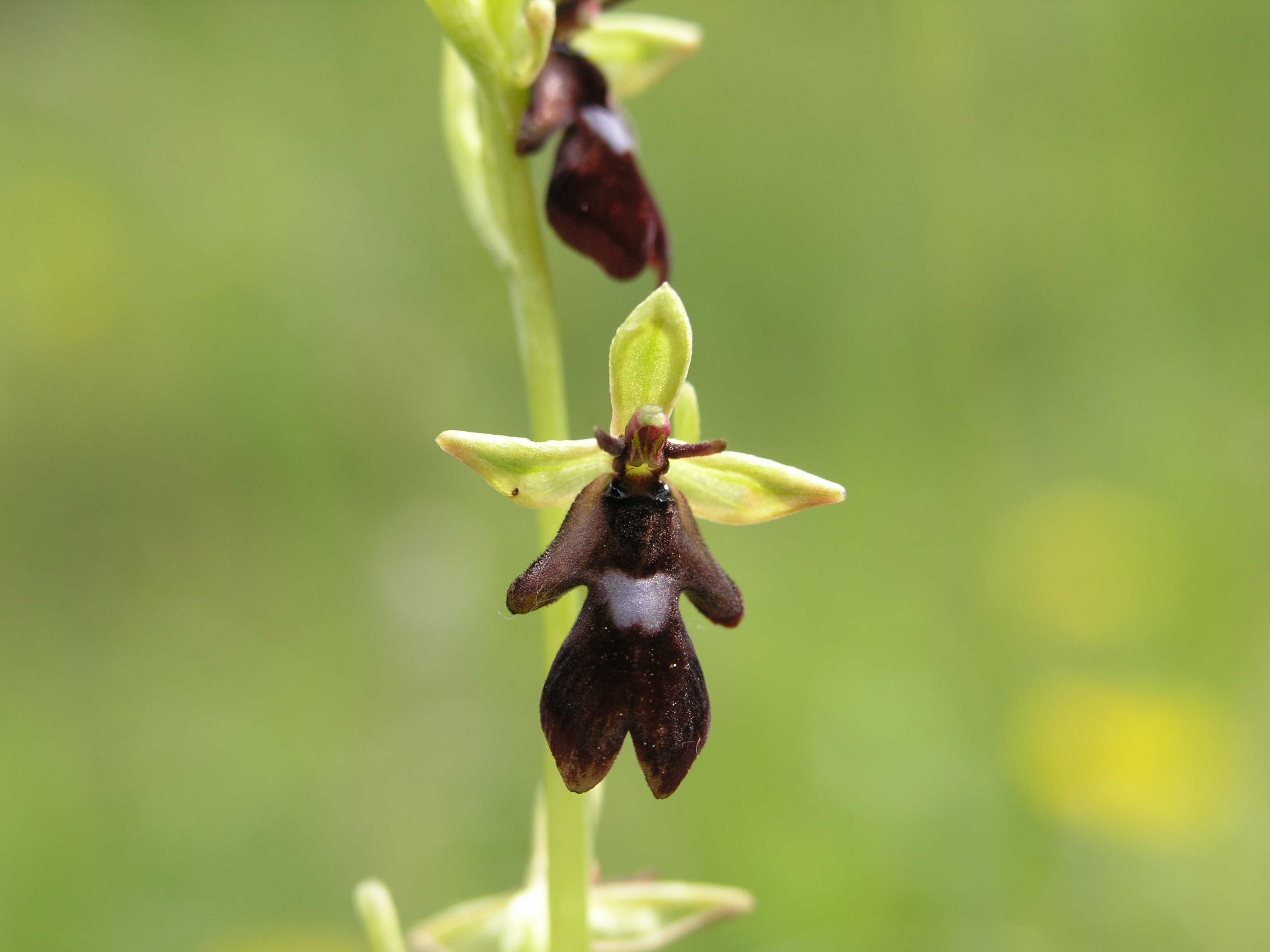 Ophrys insectifera